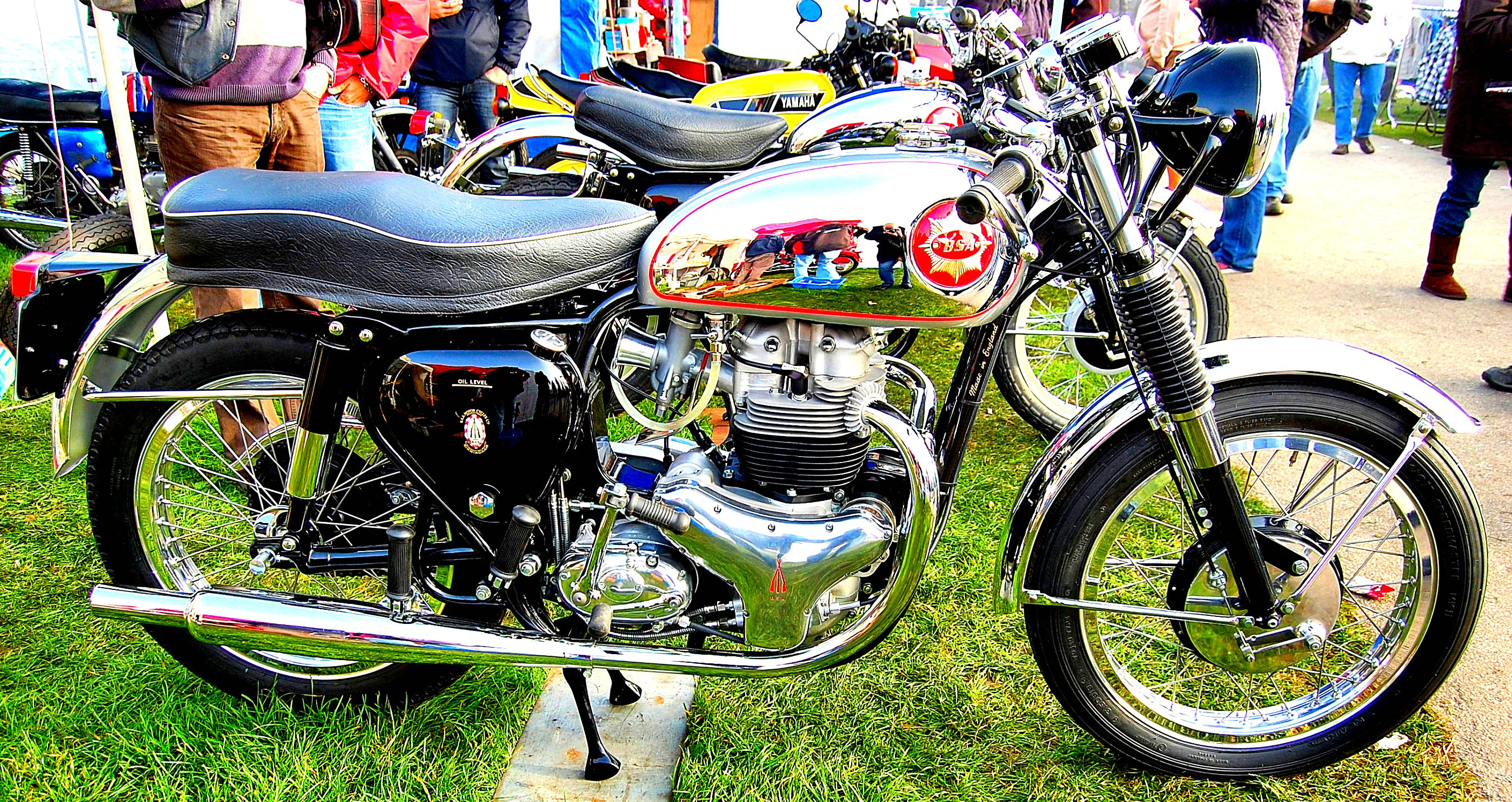 The BSA Rocket Gold Star is a British motorcycle that marked the final stage of development of the BSA A10 twins. With a specially tuned A10 Super Rocket engine in the well proven BSA Gold Star single frame, BSA created a very fast bike (for the time) with good handling fast bike that became 'classic'. Surviving models are in such demand today that 'fakes' (using Super Rocket parts) are sold as originals. Development Launched in February 1962, the total BSA Rocket Gold Star production was 1,584 bikes, of which 272 were off-road scramblers.[1] The Super Rocket compression was increased from 8.25 to 9:1 with a BSA Spitfire camshaft and an Amal Monobloc carburettor gave 46 bhp (34 kW) as standard. Options such as Siamese exhausts and a close-ratio RRT2 gearbox could increase this to 50 bhp (37 kW) – and add 30% to the price.[2] Nine specials were made for export to California and one was fitted with a sidecar by Watsonian for the Earls Court Show in October 1962.[1] The main reason for the demise of the popular Rocket Gold Star was the emergence of new unit construction successors, which meant that production ended in 1963.